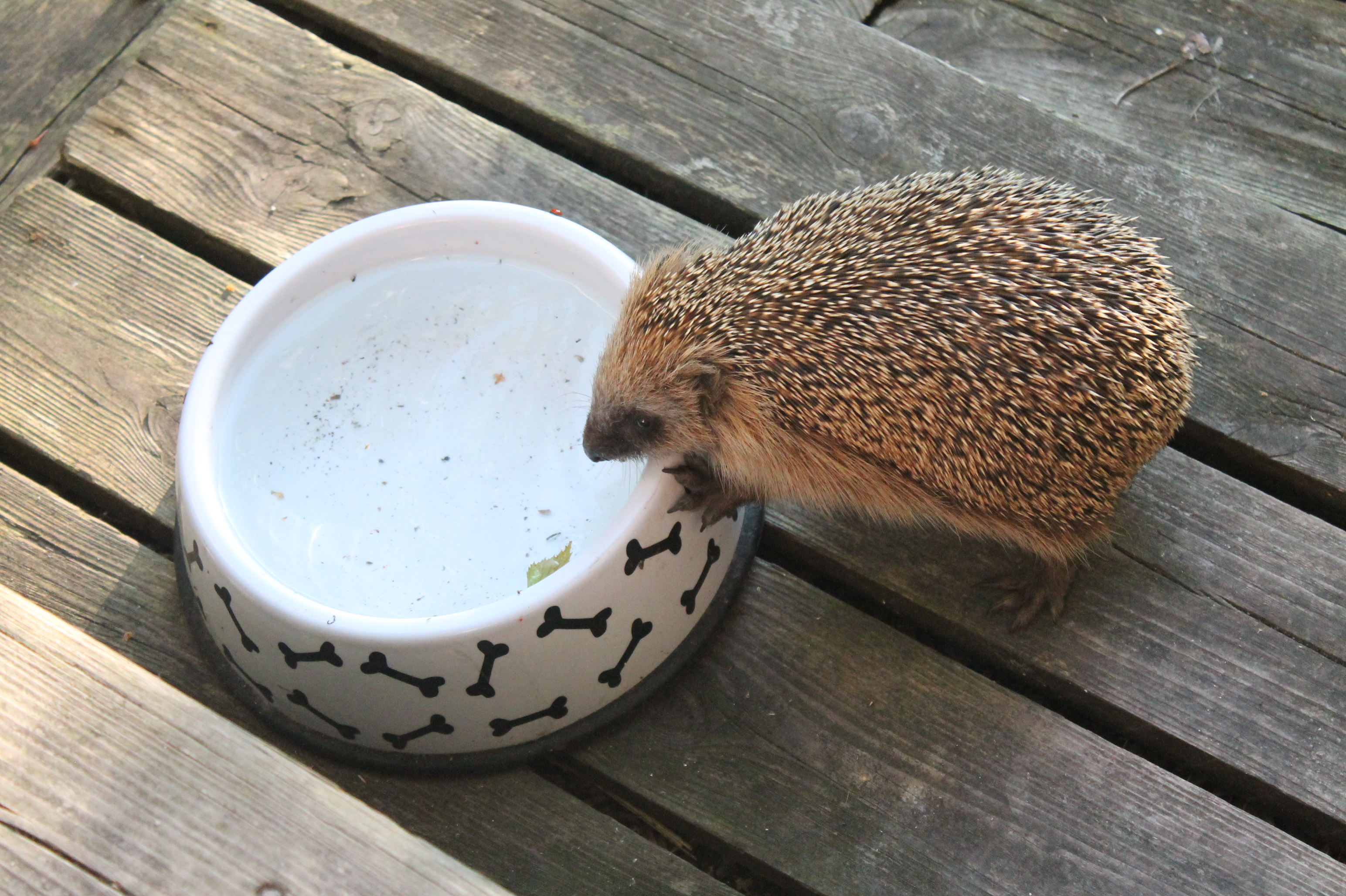 Hedgehog drinking